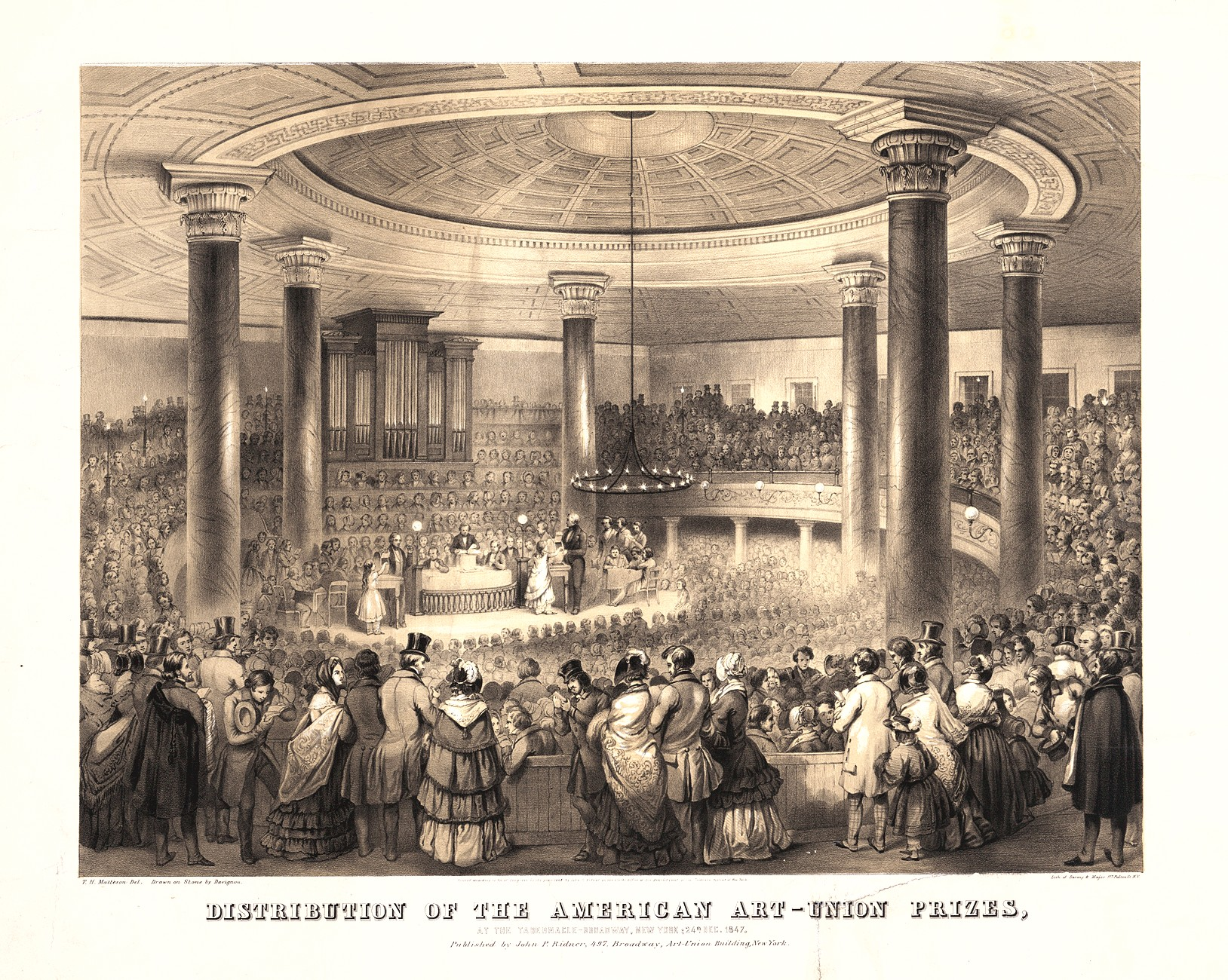 Print; Prints